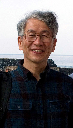 Atsuto Suzuki, Director General of the High Energy Accelerator Research Organization, and Piermaria Oddone, Director of the Fermi National Accelerator Laboratory, attended a US-Japan symposium on October, 2010.